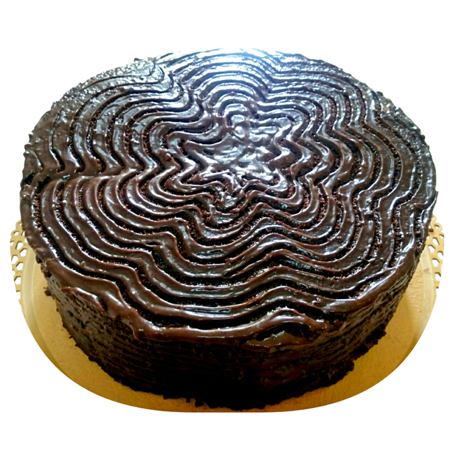 it is a mocha cake